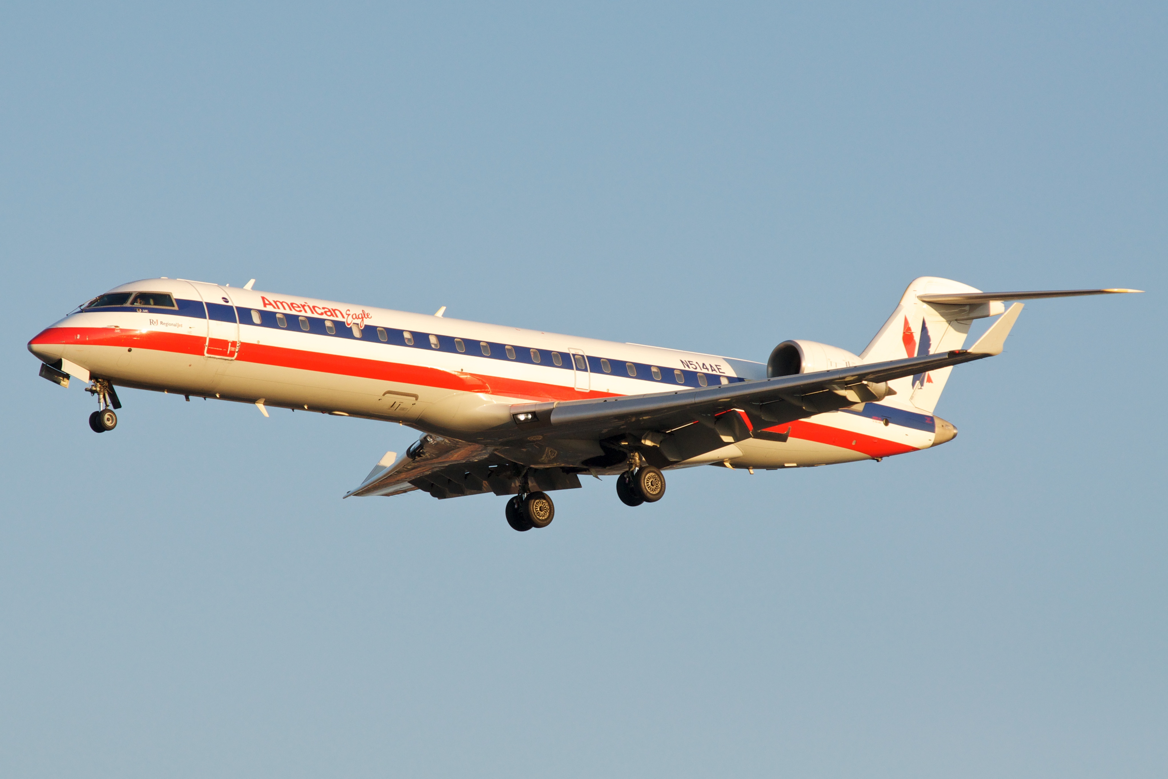 American Eagle CRJ701ER